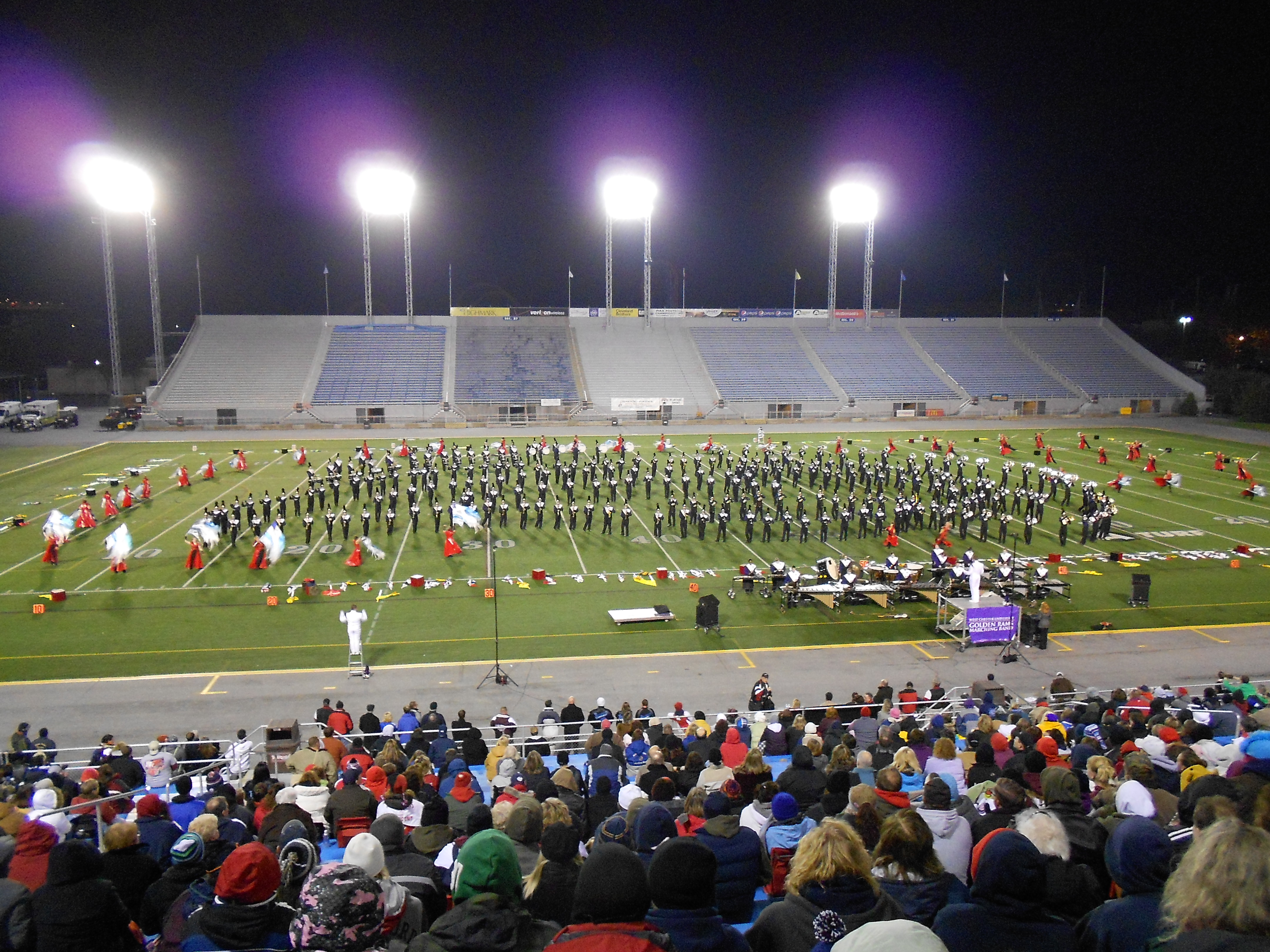 The Golden Rams performing during the 2011 Cavalcade Of Bands Championships in Hershey, PA.